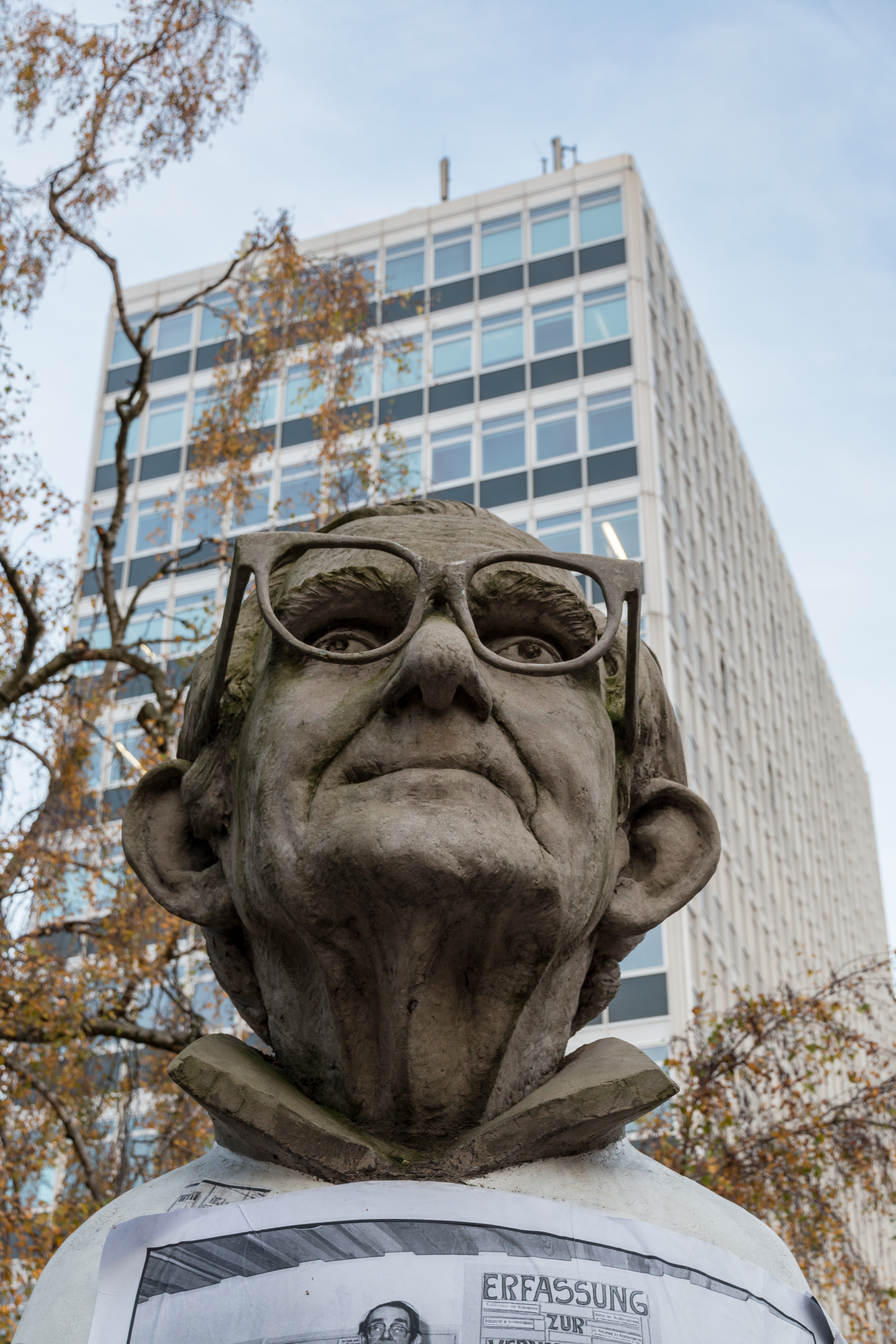 Sculpture “Paul Wulf”, Münster, North Rhine-Westphalia, Germany; in the background: Skyscraper Vereinigte Lebensversicherungsanstalt/IDUNA building (monument) This image shows a heritage building in Germany, located in the North Rhine-Westphalian city Münster. Sculpture TitlePaul WulfArtistSilke WagnerDate2007